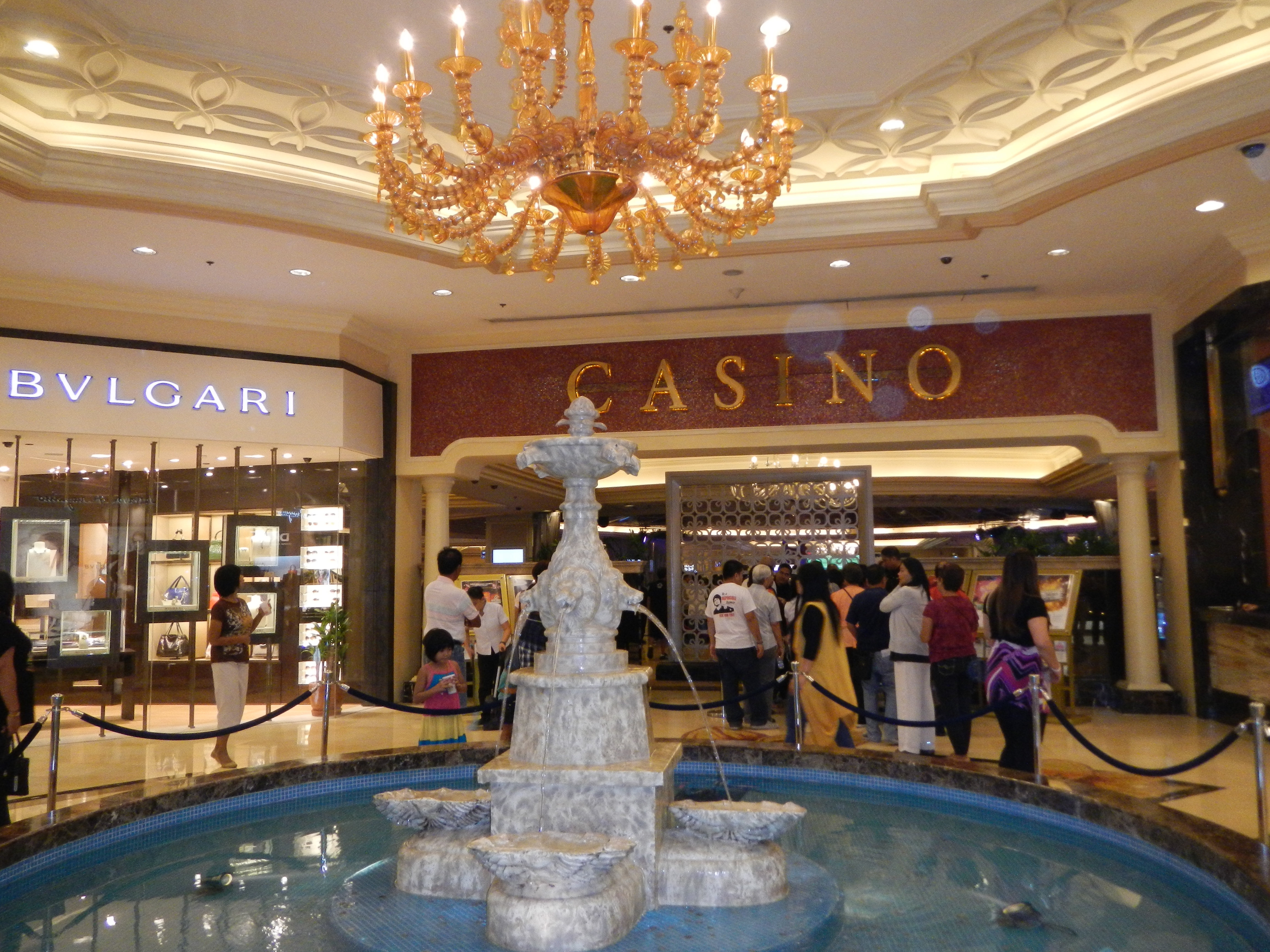 Resorts World Manila[1] is a casino resort, located in Newport City, opposite the Ninoy Aquino International Airport (NAIA) Terminal 3, in Pasay[2], Metro Manila, Philippines. The resort is a joint venture between Alliance Global Group and Genting Hong Kong. The project, occupying part of a former military camp near Manila’s airport, has three hotels with 1,574 rooms, a 30,000 square meter (323,000 square feet) casino and a 30,000 square meter shopping mall.[1] Although the soft launch of the resort took place on 28 August 2009, the grand opening was scheduled on July 2010.[2] Resorts World Manila is the sister resort to Resorts World Genting, Malaysia and Resorts World Sentosa, Singapore.It is the only casino resort in the country until the opening of Solaire Resort & Casino in Entertainment City, Paranaque City on March 16, 2013.[3]Coordinates: 14°31'11"N 121°1'9"E [4] is a 7.8 hectare Entertainment Complex consisting of Marriott Hotel, Maxims Hotel, Remington Hotel, an upscale mall, premium cinemas, theater, and the country's largest casino.[5][6][7]Resorts World Manila to bring beloved fairy tale to life[8]